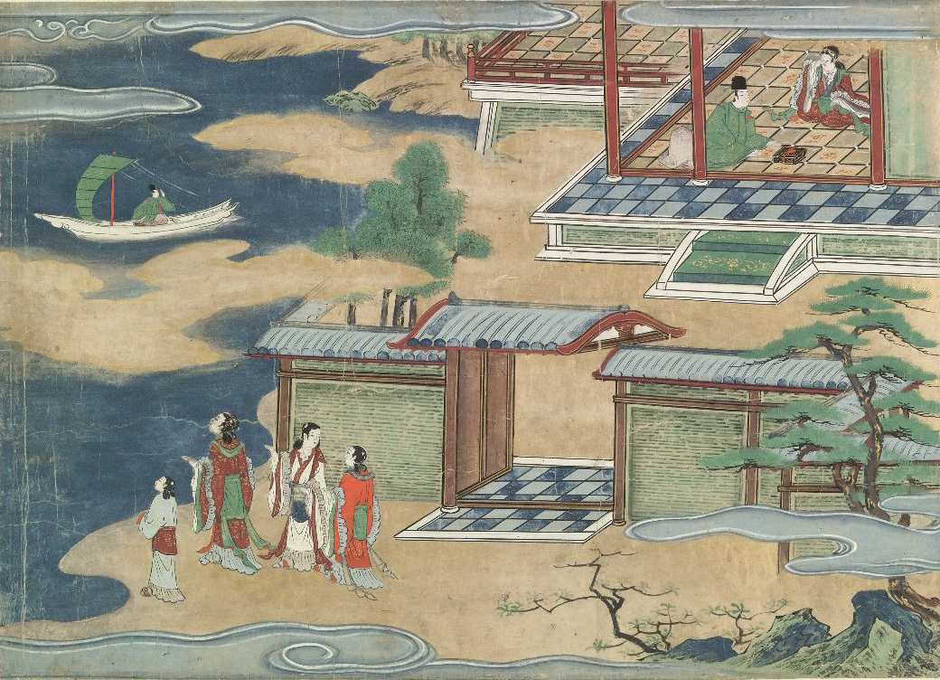 Urashima's departure. Weeping, Otohime gives Urashima a box or casket that will bring him luck, but warns him not to open it. Urashima sails away in his boat. Japanese handscroll or emakimono of a Japanese folk tale of the fisherman Urashima Taro, having saved a turtle’s life, transported to Horai, a Turtle palace as the guest of Princess Otohime. On his return he finds that many years have passed in his home village. Opening a magic box given to him by Otohime, he ages. Written in Japan, late 16th or early 17th century. Shelfmark: MS. Jap. c.4(R)